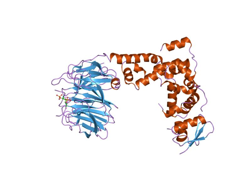 Cartoon representation of the molecular structure of protein registered with 1p22 code.